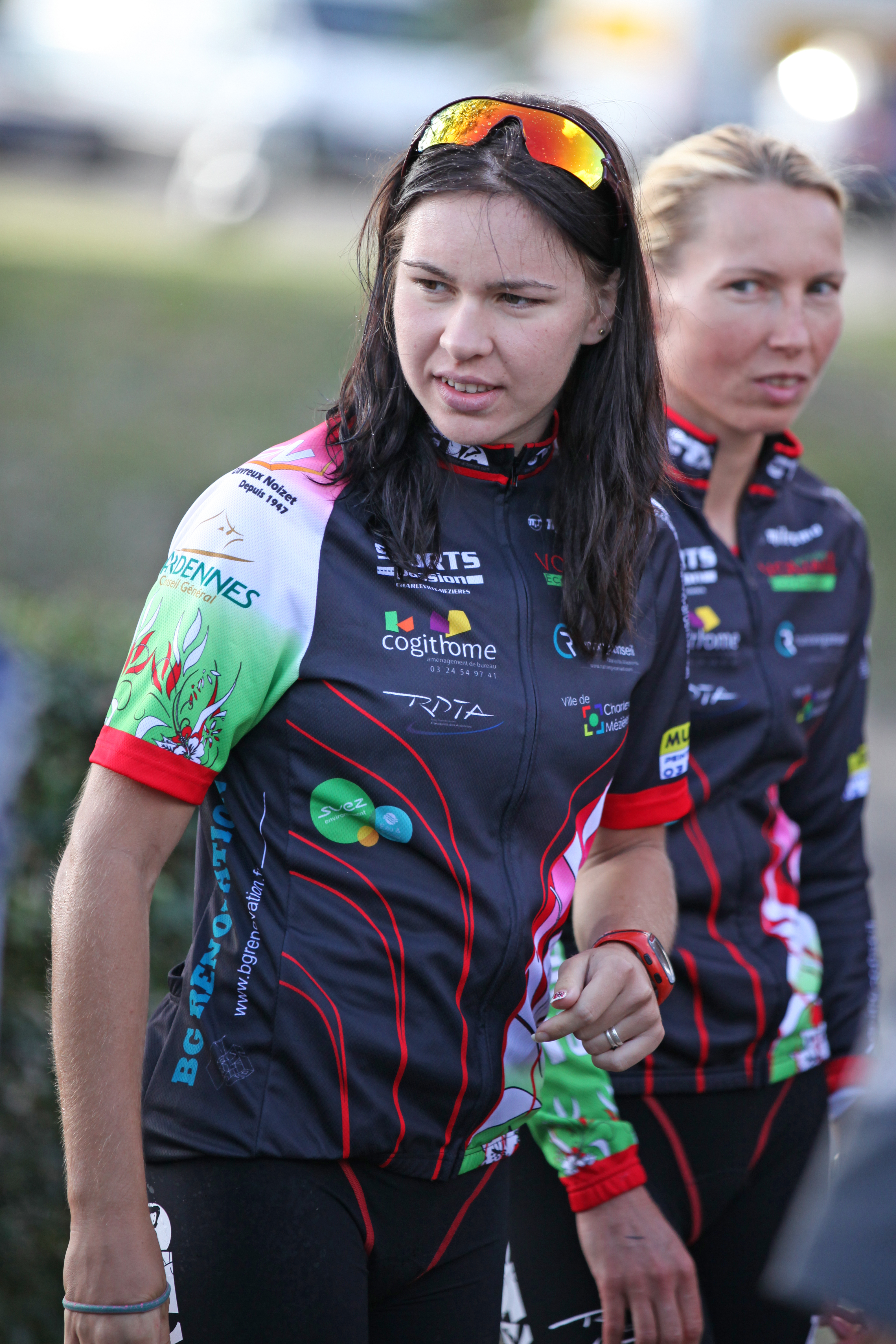 Alexandra Razarenova / Razaryonova (Александра Германовна Разарёнова) with Anja Dittmer at the French Grand Prix de Triathlon, Tours 2011.